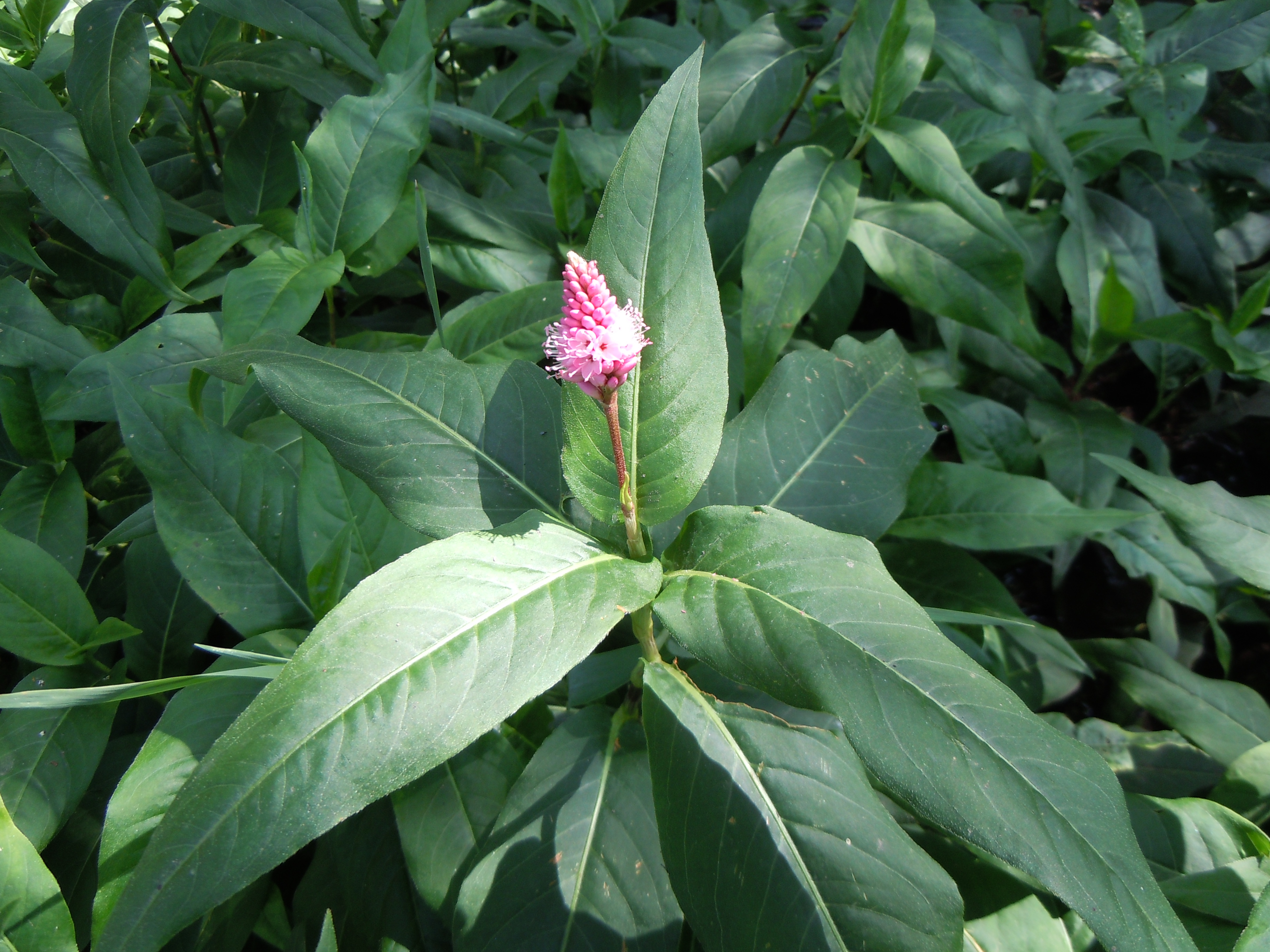 The spicate inflorescence is always terminal and often lateral (here just a terminal inflorescence branch is shown).